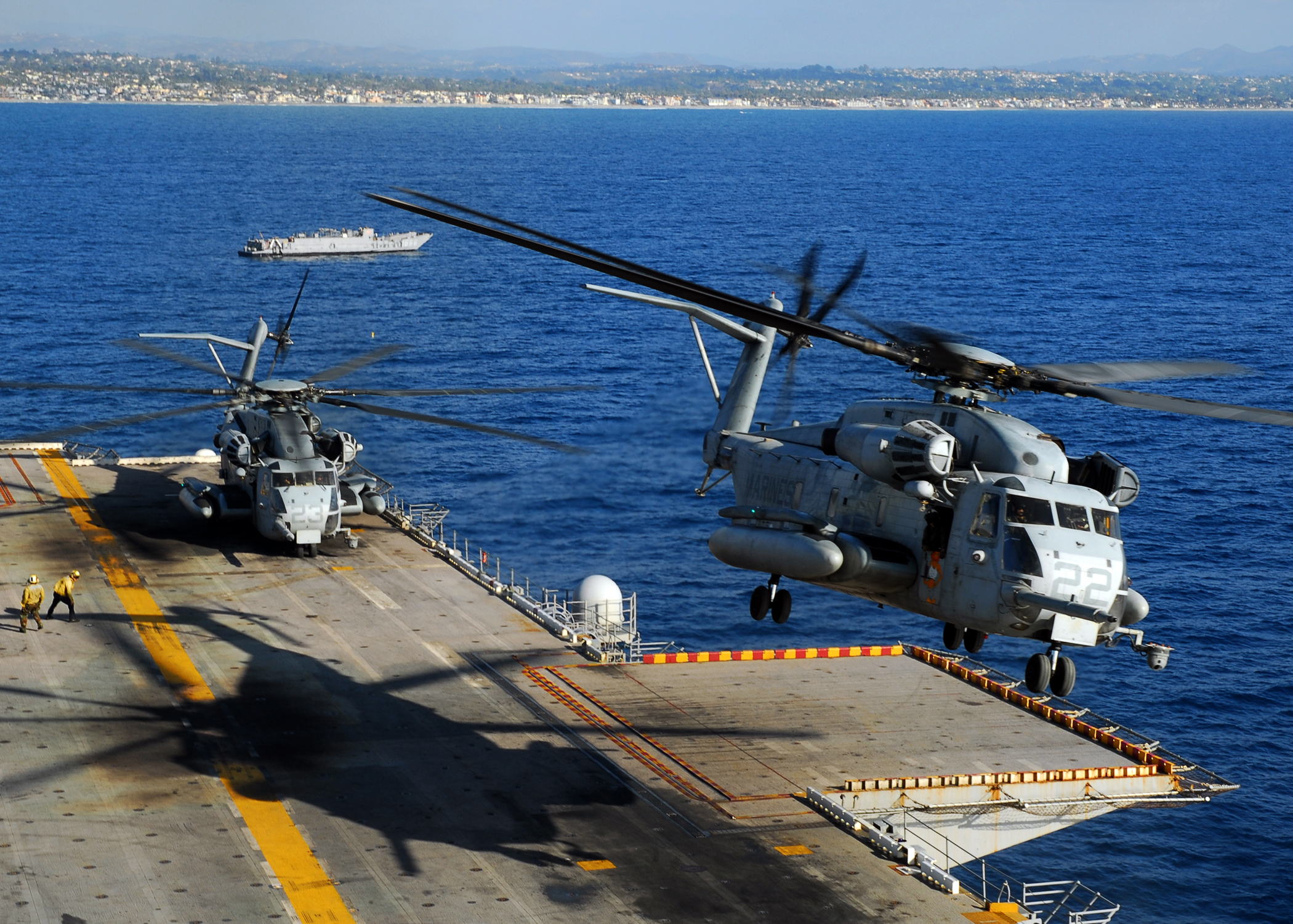 081103-N-2183K-081 PACIFIC OCEAN (Nov. 3, 2008) A CH-53E Super Stallion helicopter descends to the flight deck during operations to disembark Marines after a scheduled six-month deployment aboard the amphibious assault ship USS Peleliu (LHA 5). Peleliu is the flagship of Peleliu Expeditionary Strike Group. (U.S. Navy photo by Mass Communication Specialist 2nd Class Dustin Kelling/Released)